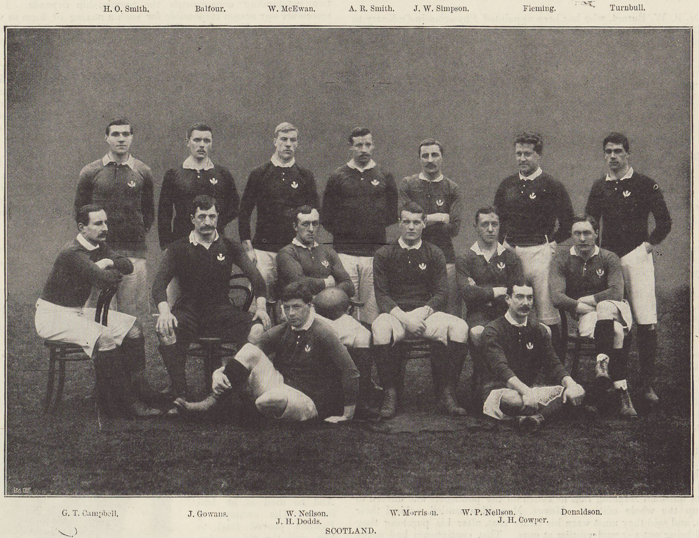 Scottish Rugby Union Team 15 February 1896, before the 1896 Home Nations Championship encounter with Ireland at Lansdowne Road, Ireland